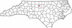 Category:North Carolina Dot Maps